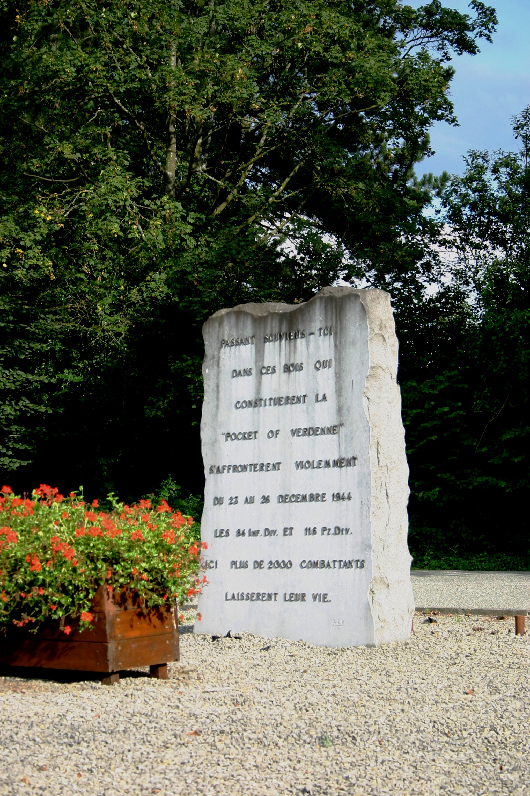 Verdenne memorial to the soldiers of the Pocket of Verdenne